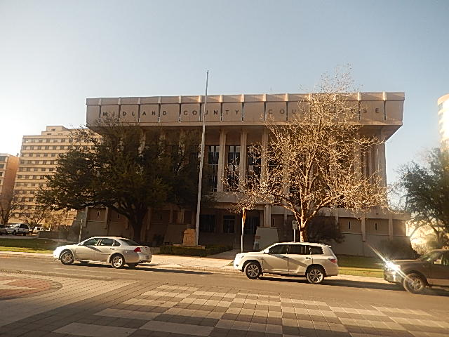 I took photo of former Midland County, TX, courthouse with Nikon camera.